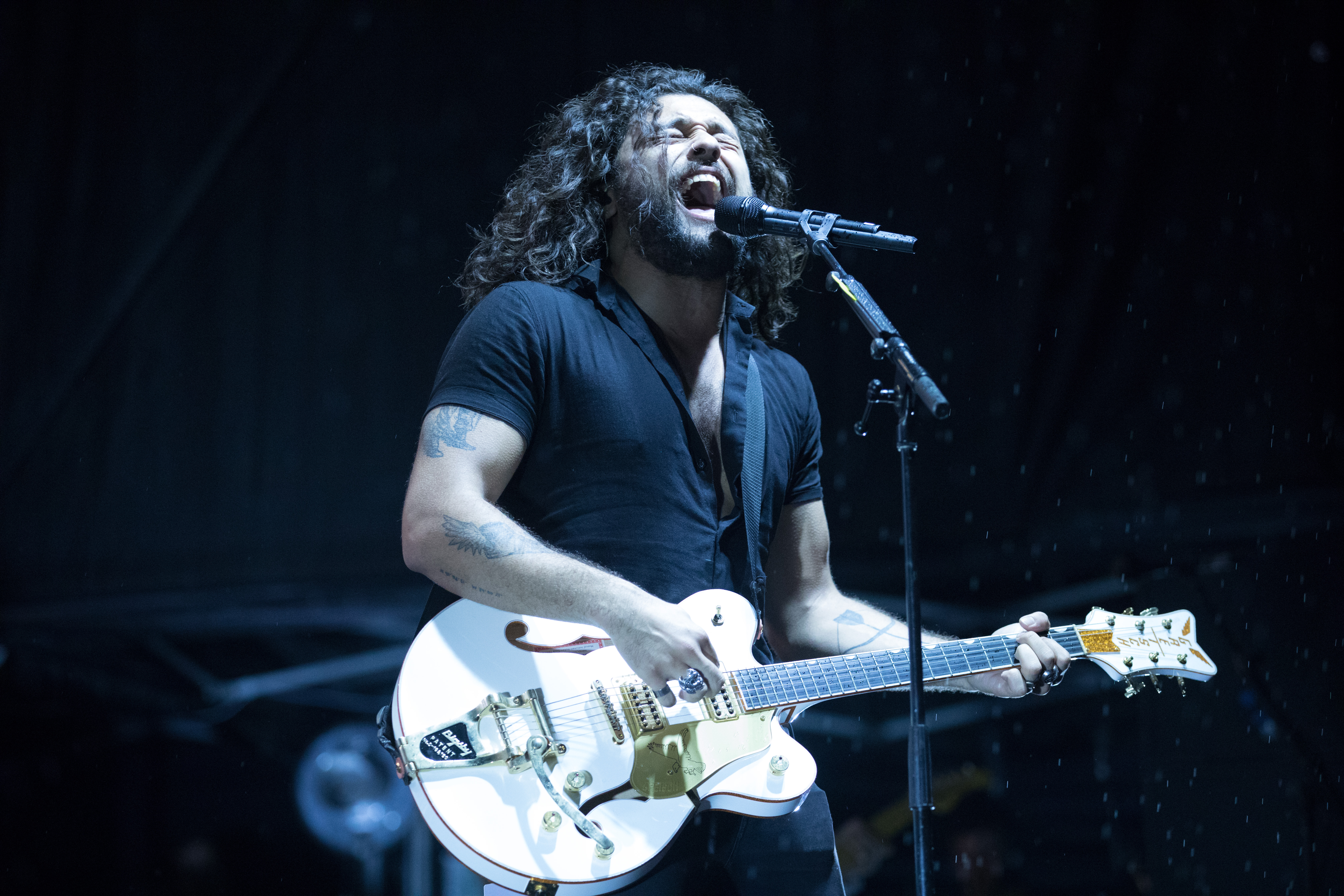 Dave Le'aupepe performing with Gang of Youths at Fairgrounds Festival 2017